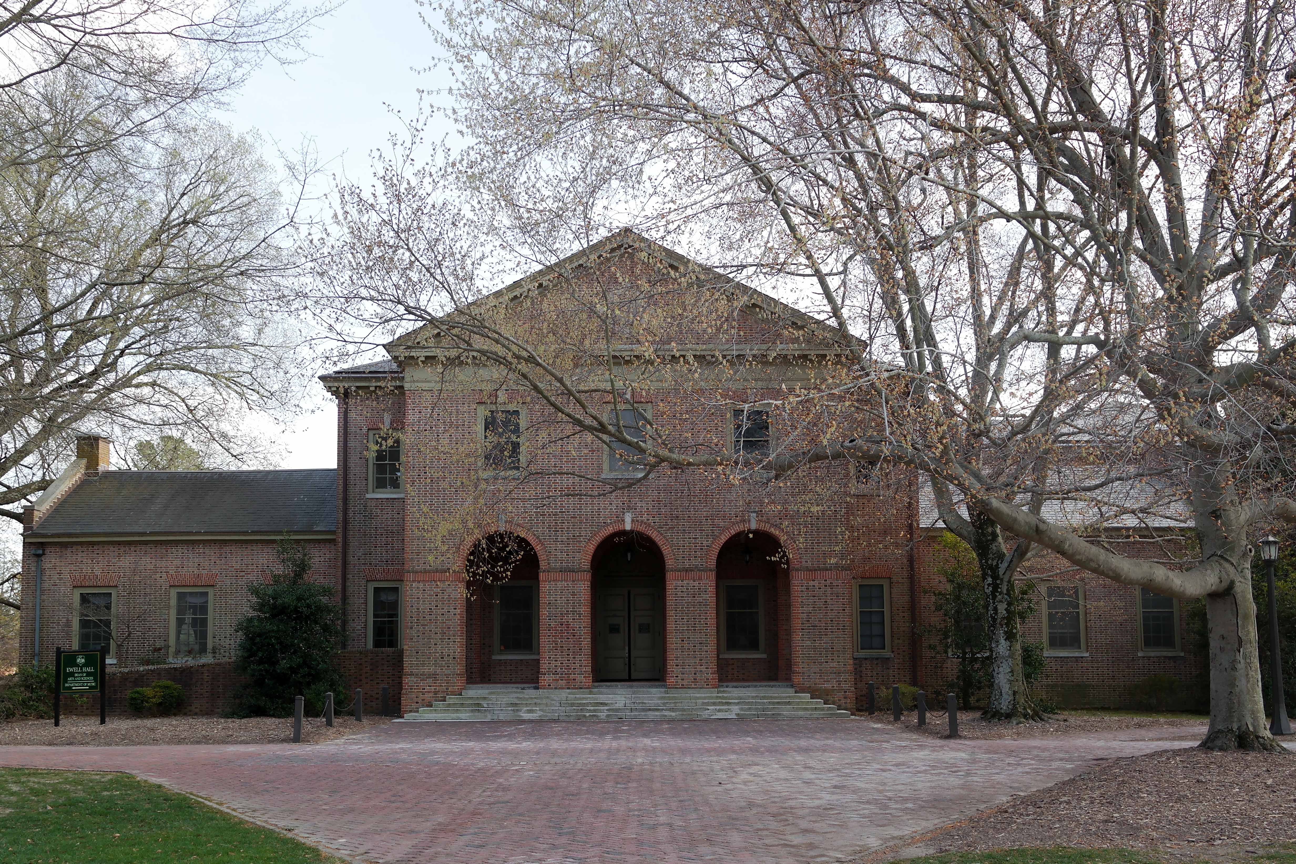 A view of Ewell Hall at the College of William and Mary in Williamsburg, Virginia